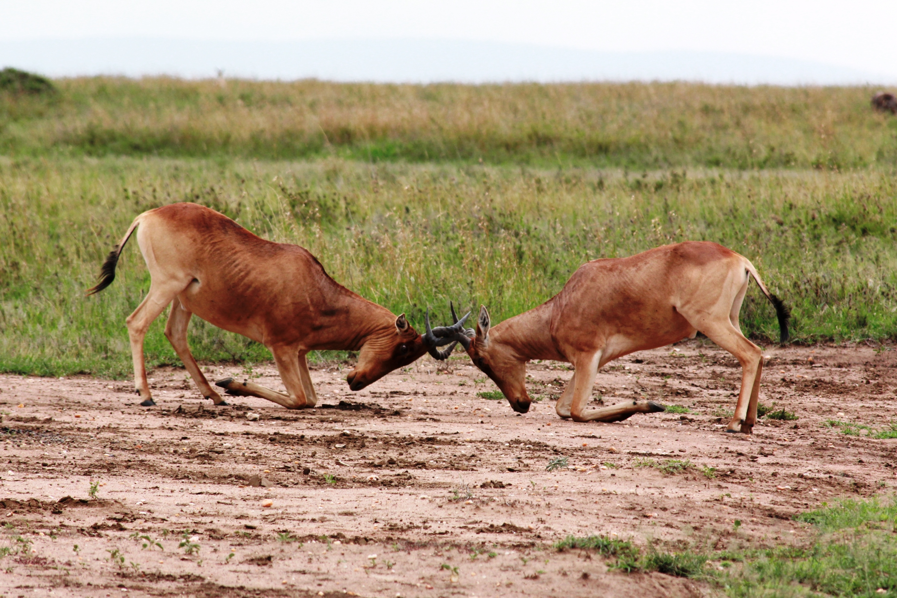 Male hartebeest strenuously defend their territories; they often stand on open, elevated areas to keep a lookout for intruders. Should a territorial male be challenged, a fight may develop. The hartebeest with its stout horns, short, strong neck and heavily muscled shoulders, is well-prepared for fighting. If the dispute over a territory is serious and both males are prepared to fight over it, severe injury may result.